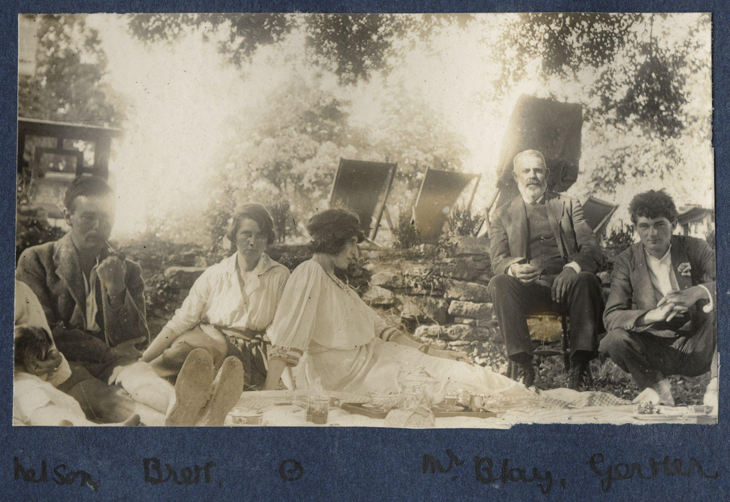 Geoffrey Nelson; Hon. Dorothy Eugénie Brett; Lady Ottoline Morrell; Mr Blay; Mark Gertler, by unknown artist. All images in this batch have an unknown author, but there is strong evidence it was first published before 1923 (based mainly on the NPG's estimated date of the work).